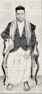 Simizhi Sundaram Iyer